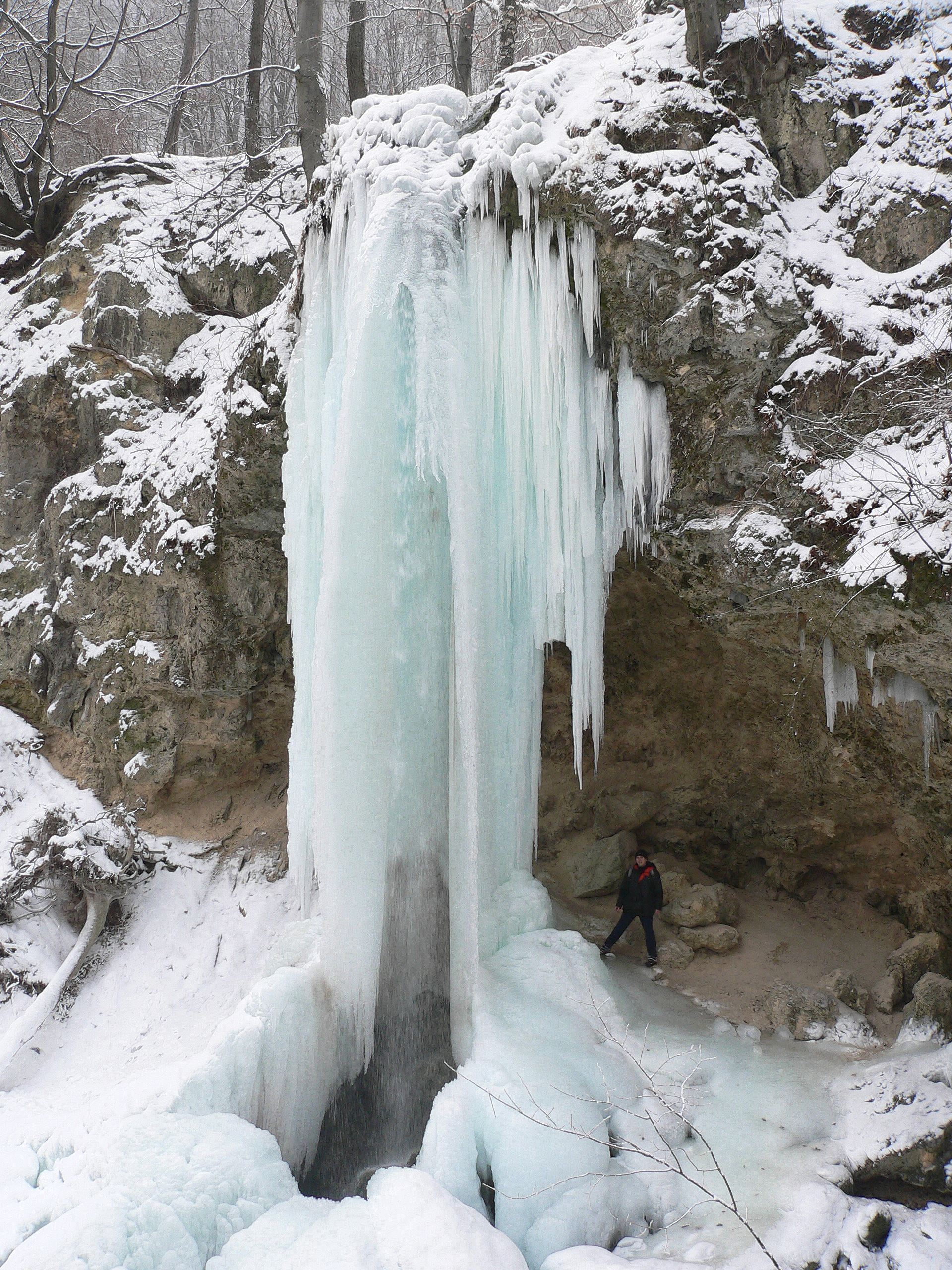 The highest waterfall in Hungary iced in wintertime in Miskolc-Lillafüred